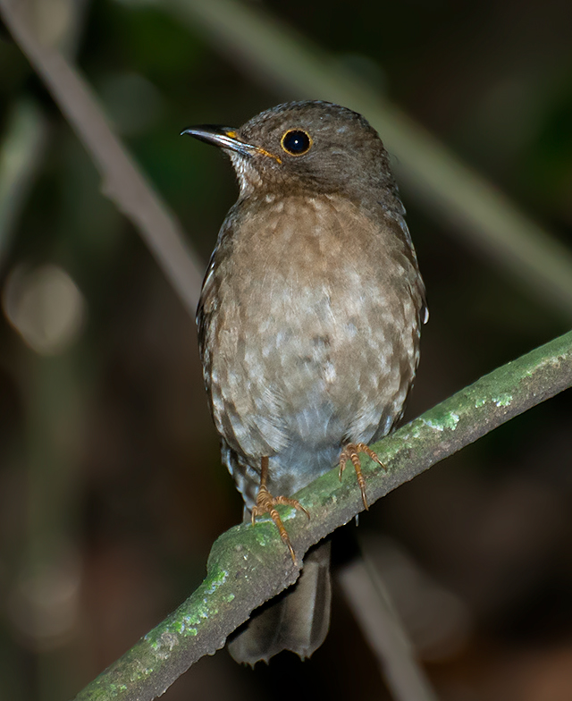 A female Yellow-legged Thrush in Parque Estadual da Cantareira, São Paulo, Brazil.